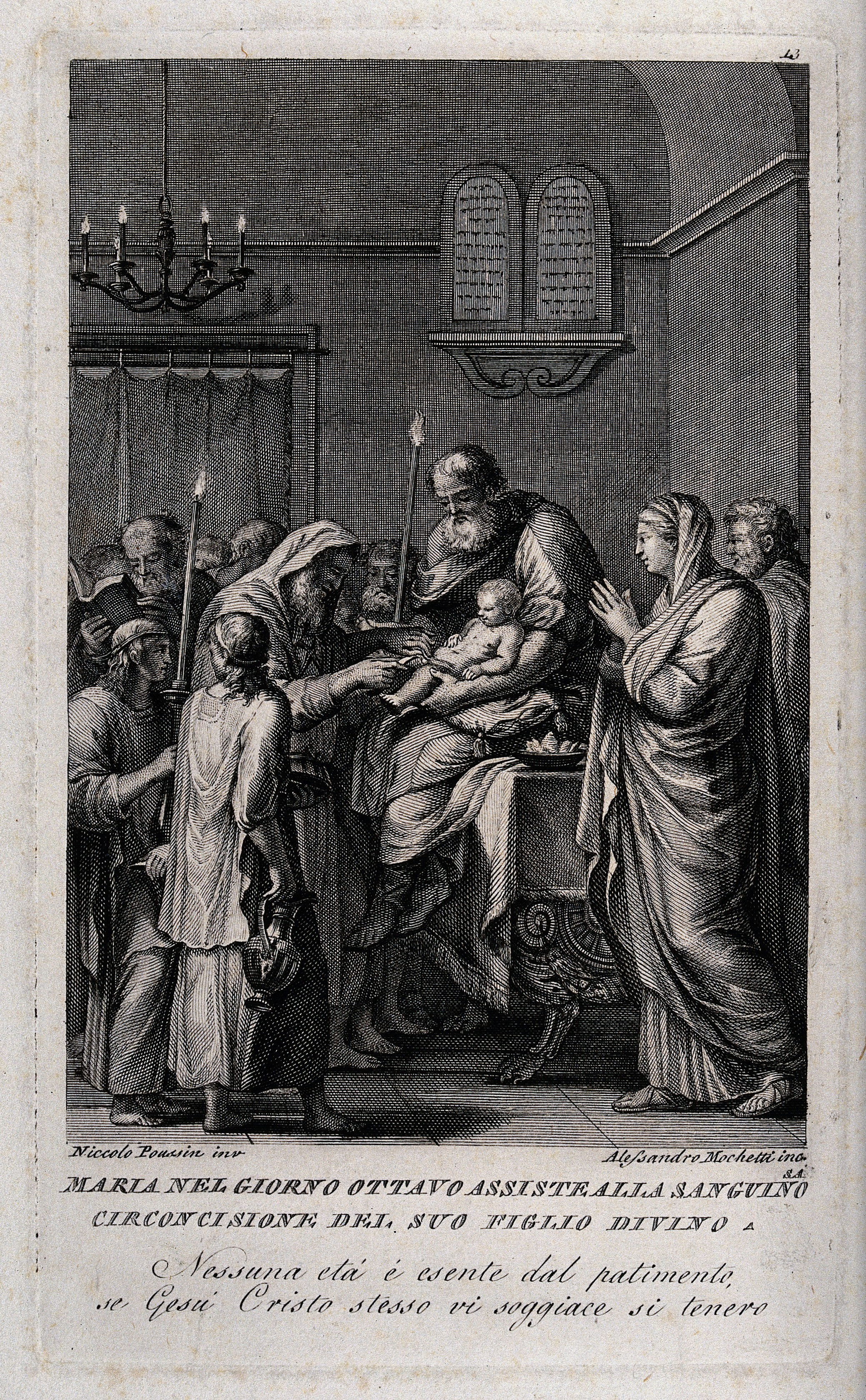 The circumcision of Christ. Engraving by A. Mochetti supposedly after N. Poussin. Iconographic Collections Keywords: Alessandro Mochetti; Jesus Christ; Nicolas Poussin; Mary